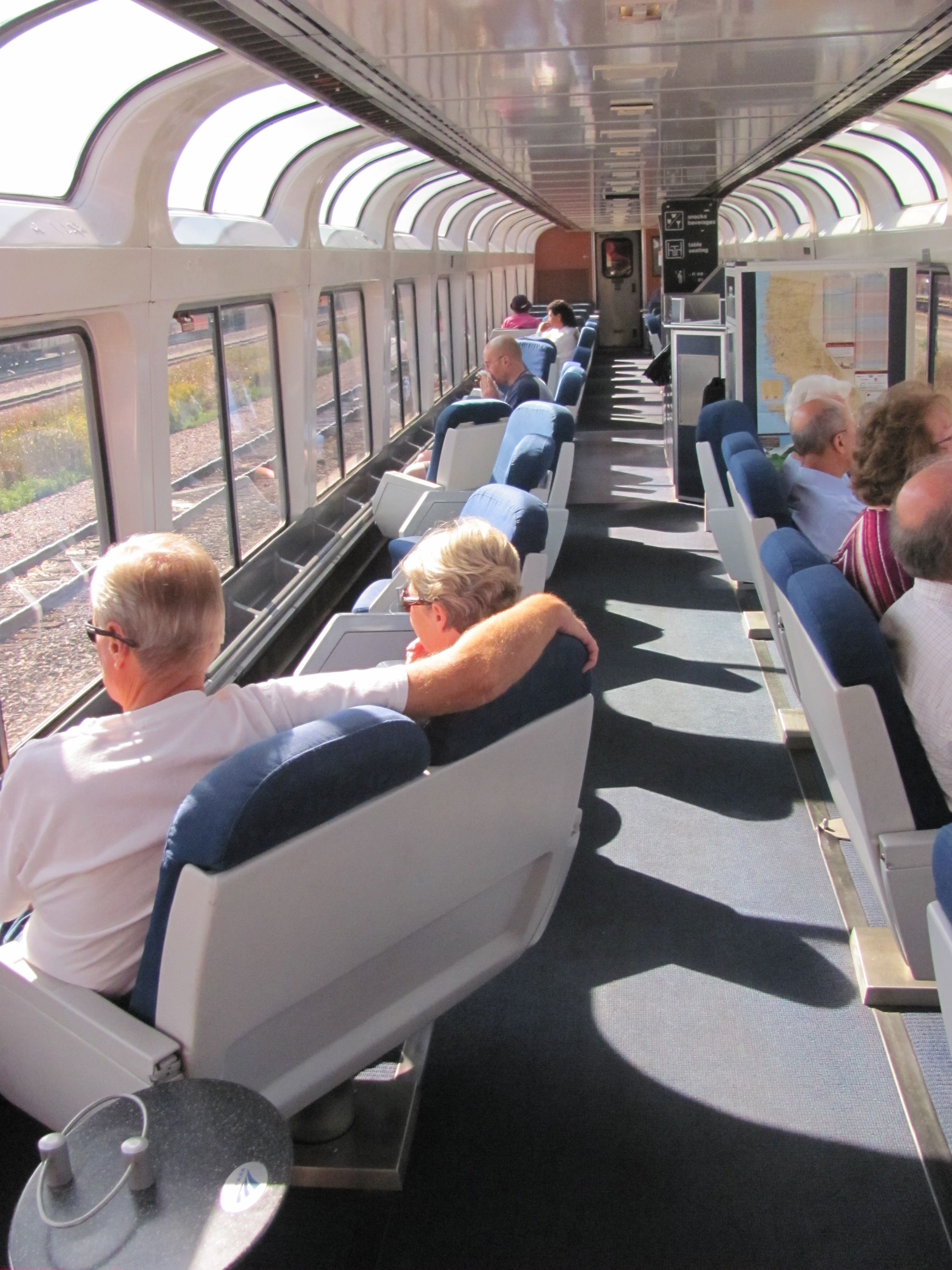 Observation car of California Zephyr